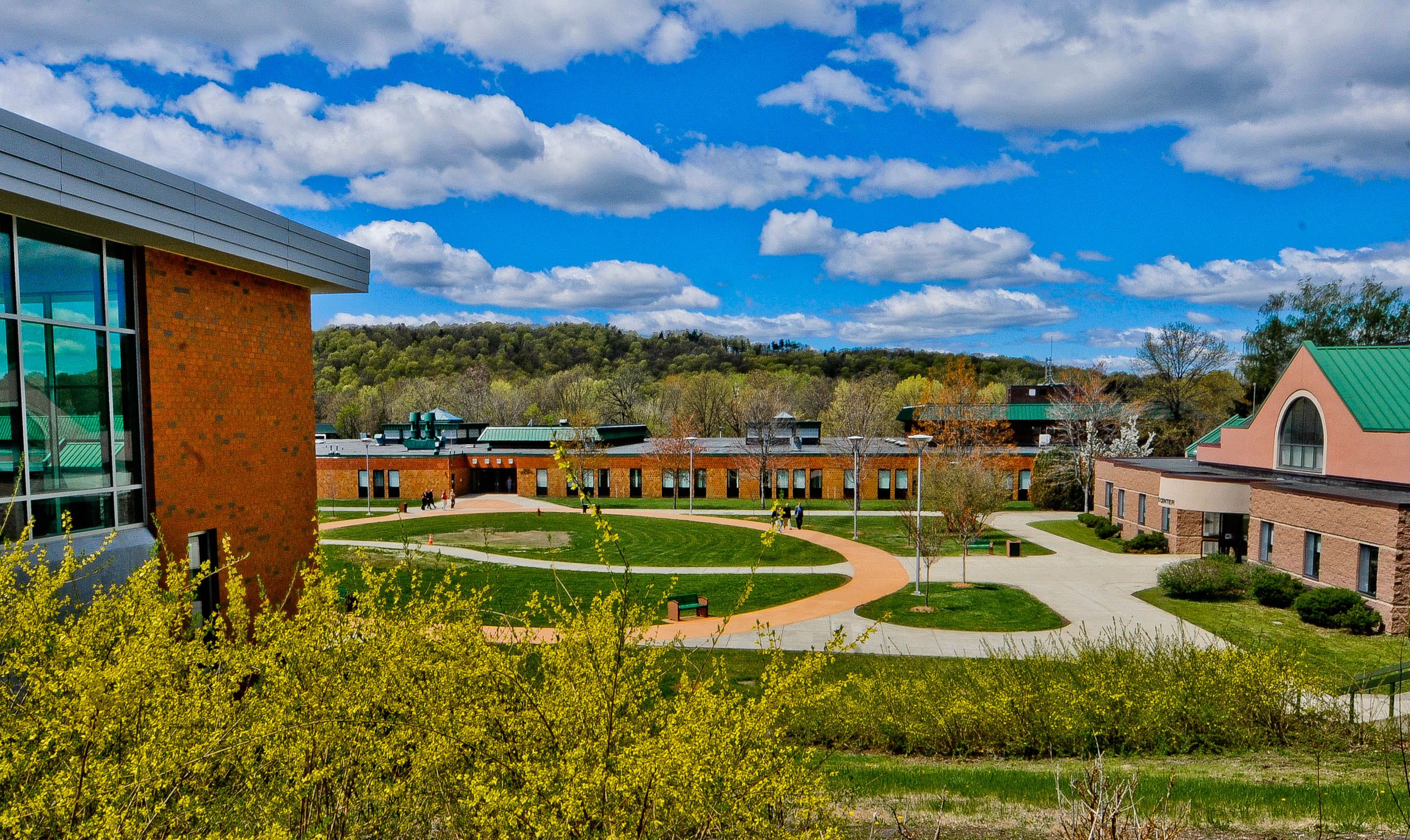 This image shows the current location of the Columbia-Greene Community College campus.